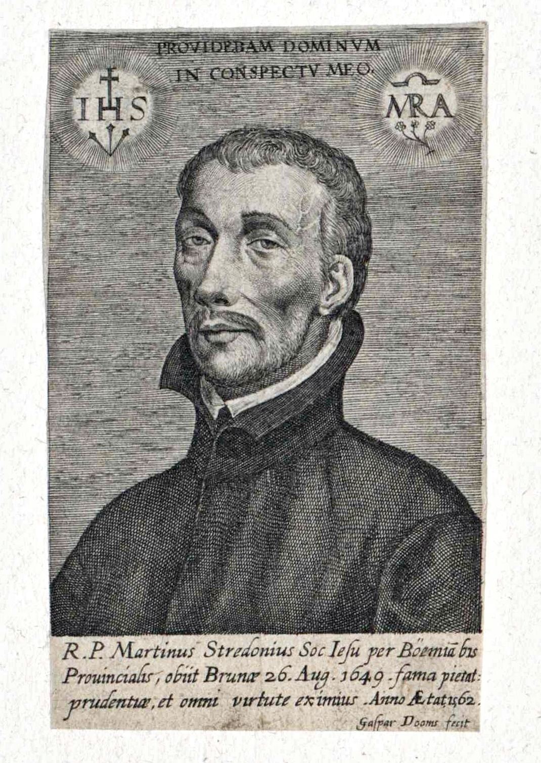 Martin Stredonius (1587-1649), Jesuit, Rektor des Brünner Jesuitenkollegs und Rektor der Karlsuniversität Prag